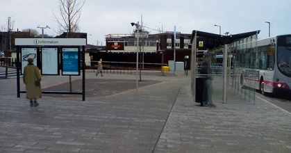 Photograph of new bus station in Radcliffe, Manchester, UK.